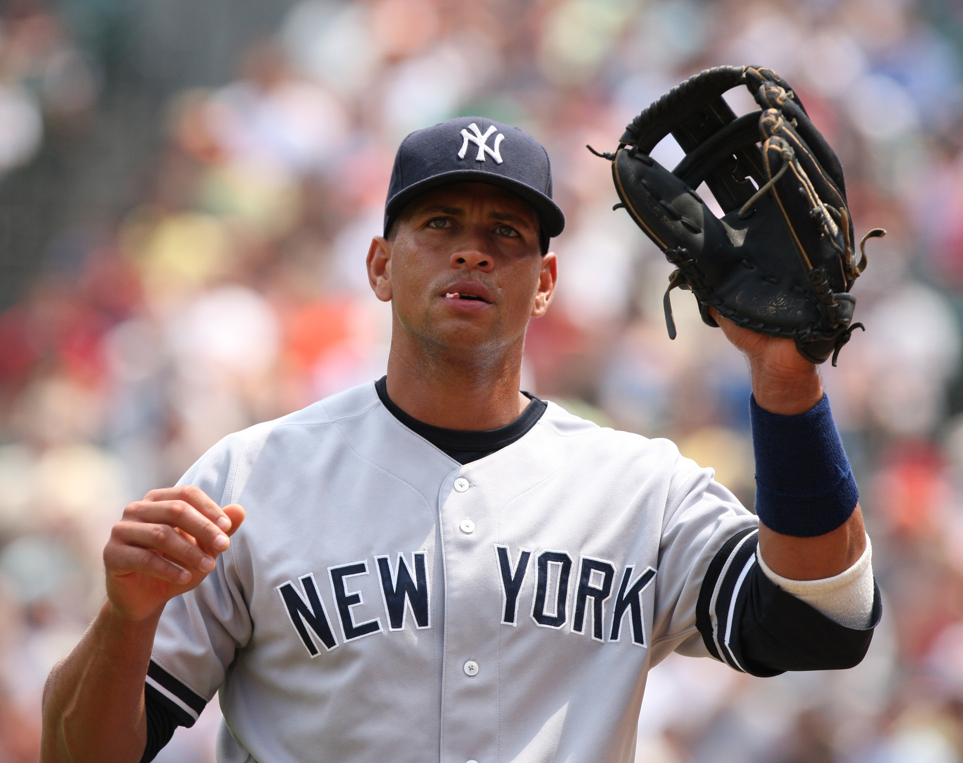 Picture of New York Yankee Alex Rodriguez during a 2007 baseball game